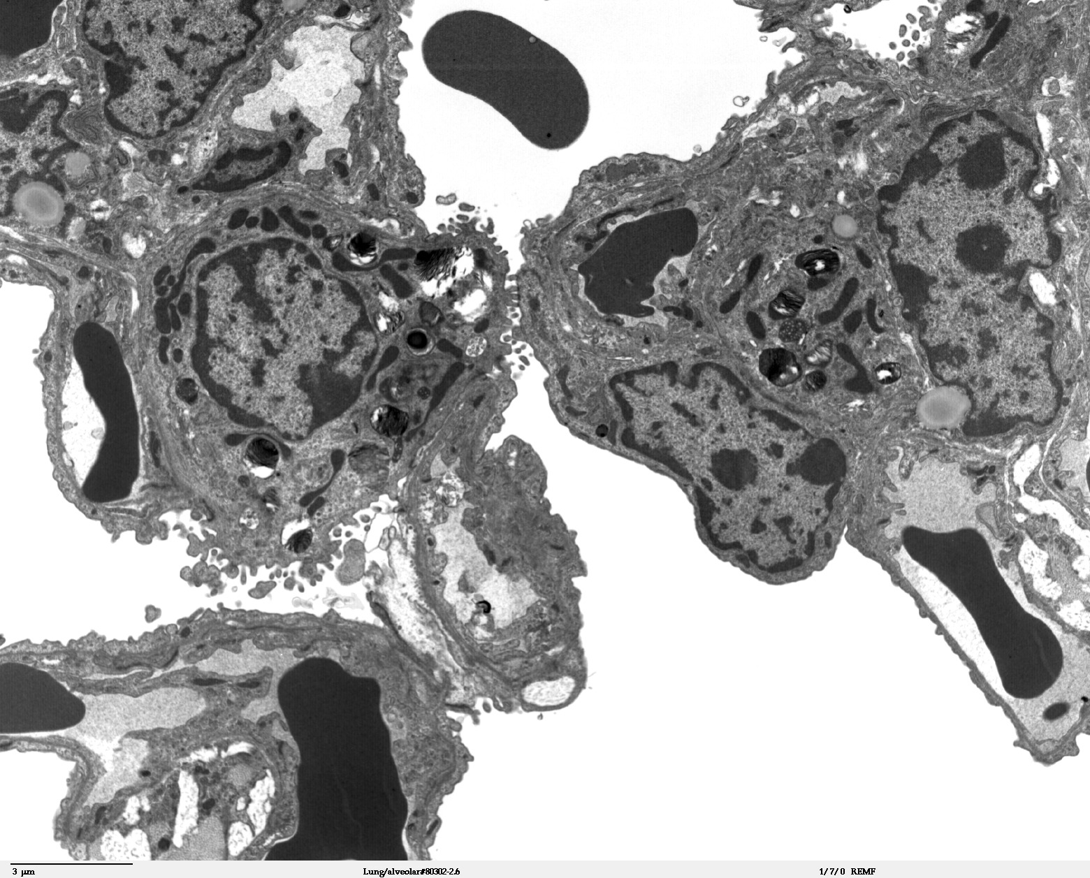 Transmission electron microscope image of a thin section cut through the alveolar sac region of the lung (mouse). The alveolar cell shown has vesicles which contain surfactant, a macroaggregate of phosolipids and proteins which help with breathing. The surfactant is released by exocytosis and forms a thin monolayer on the wall of the alveoli. This layer can't be seen in a TEM image, because no fixative adequately preserves it, but it can be seen inside the surfactant vesicles in the cytoplasm. This layer helps to reduce surface tension, thereby preventing collapse of the alveoli during exhalation and reduces the energy needed during inhalation. The capillaries contain red blood cells. The capillary lining consists of long, thin endothelial cells, connected by tight junctions. JEOL 100CX TEM